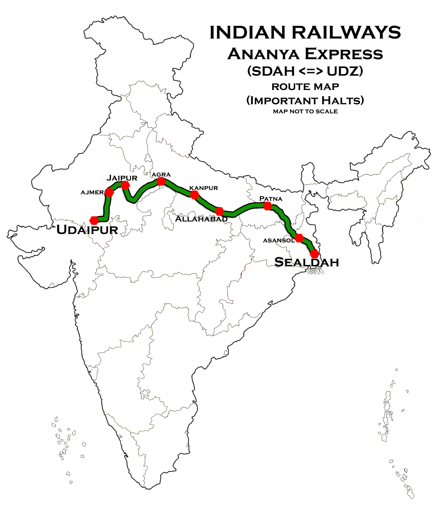 Ananya Express (Sealdah - Udaipur) Route map